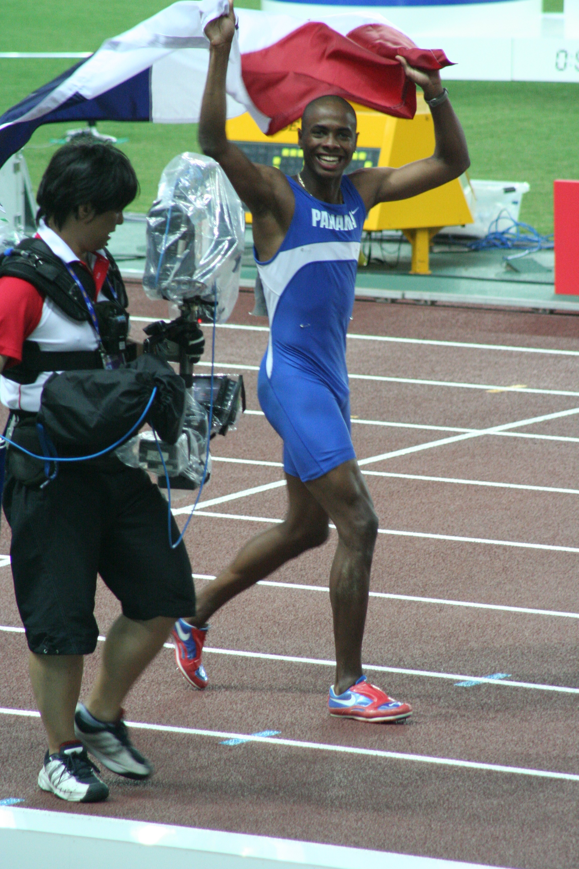 World Athletics Championships 2007 in Osaka - Panamese long jumper Irving Saladino celebrating his victory